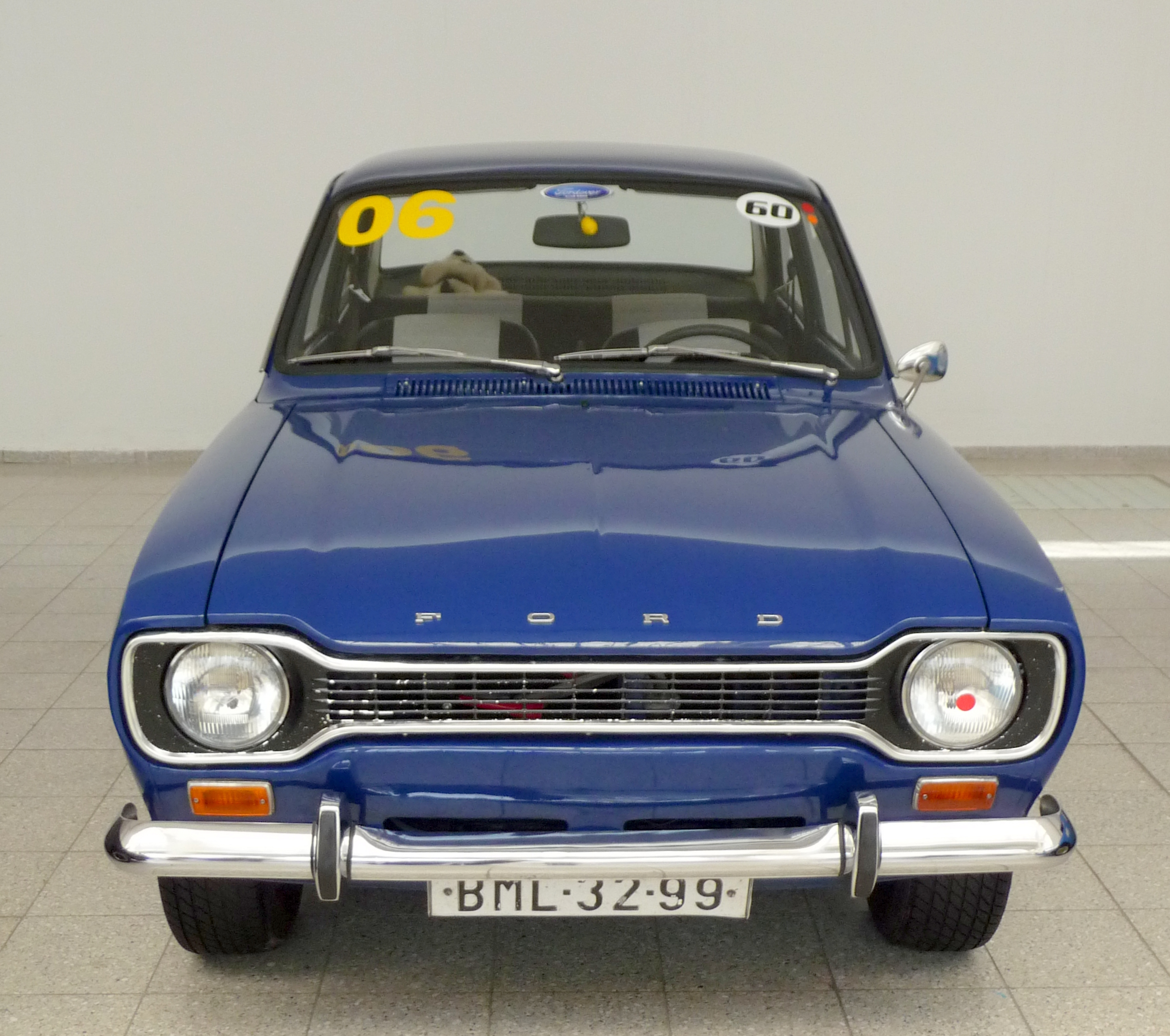 Ford Escort Mk.1, year 1968, Classic Show Brno 2011, The Brno Exhibition Grounds -10 -5 -3 -2 ◄ ► +2 +3 +5 +10